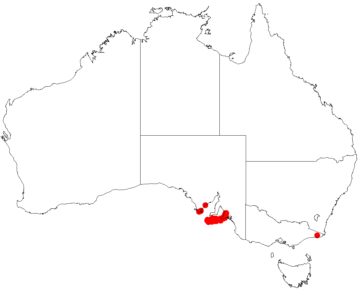 Billardiera uniflora occurrence data from Australasian Virtual Herbarium downloaded 5 July 2018